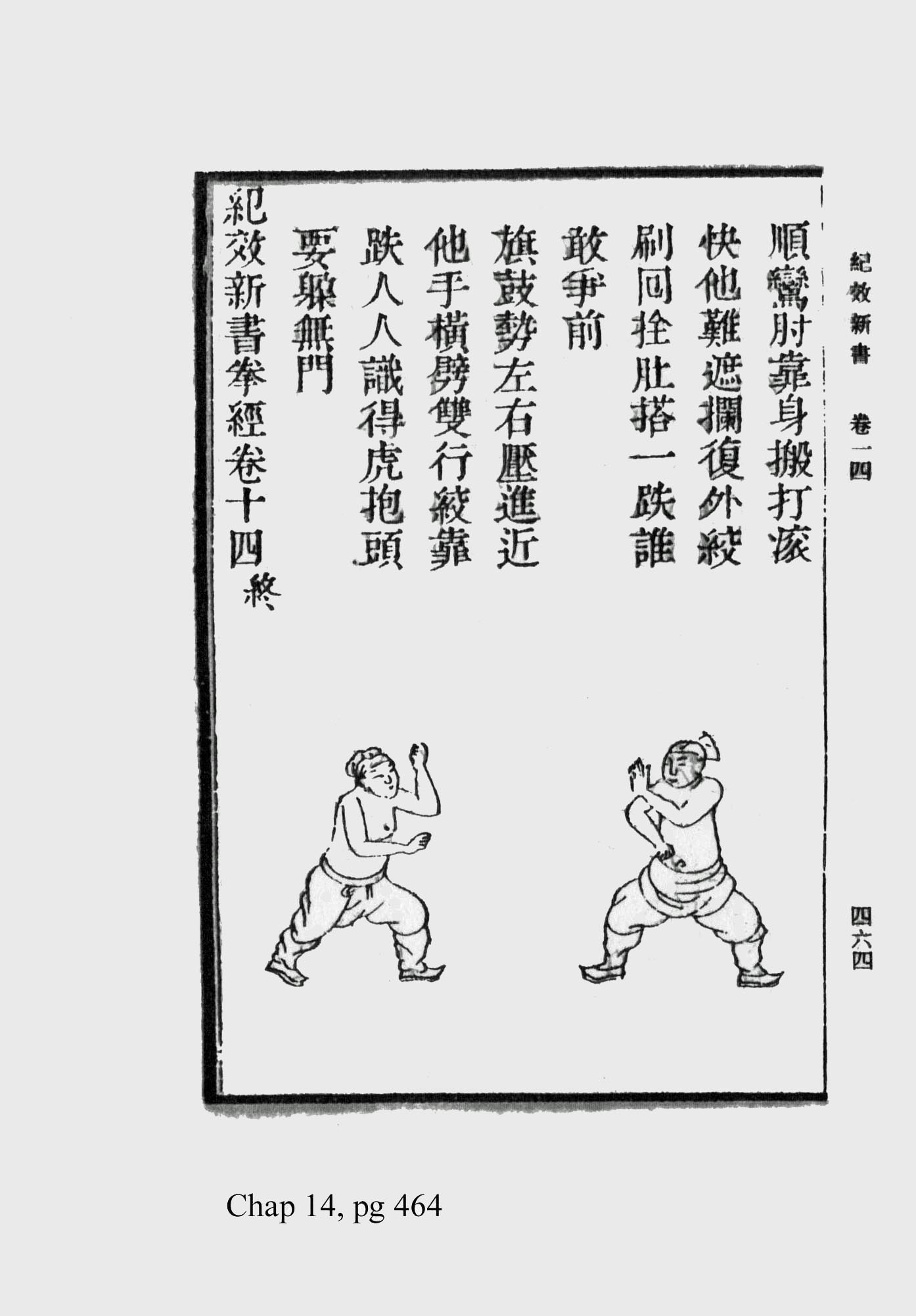 Ji Xiao Xin Shu; Chapter (Boxing Canon) 9th and last page of illustrations and accompanying commentary